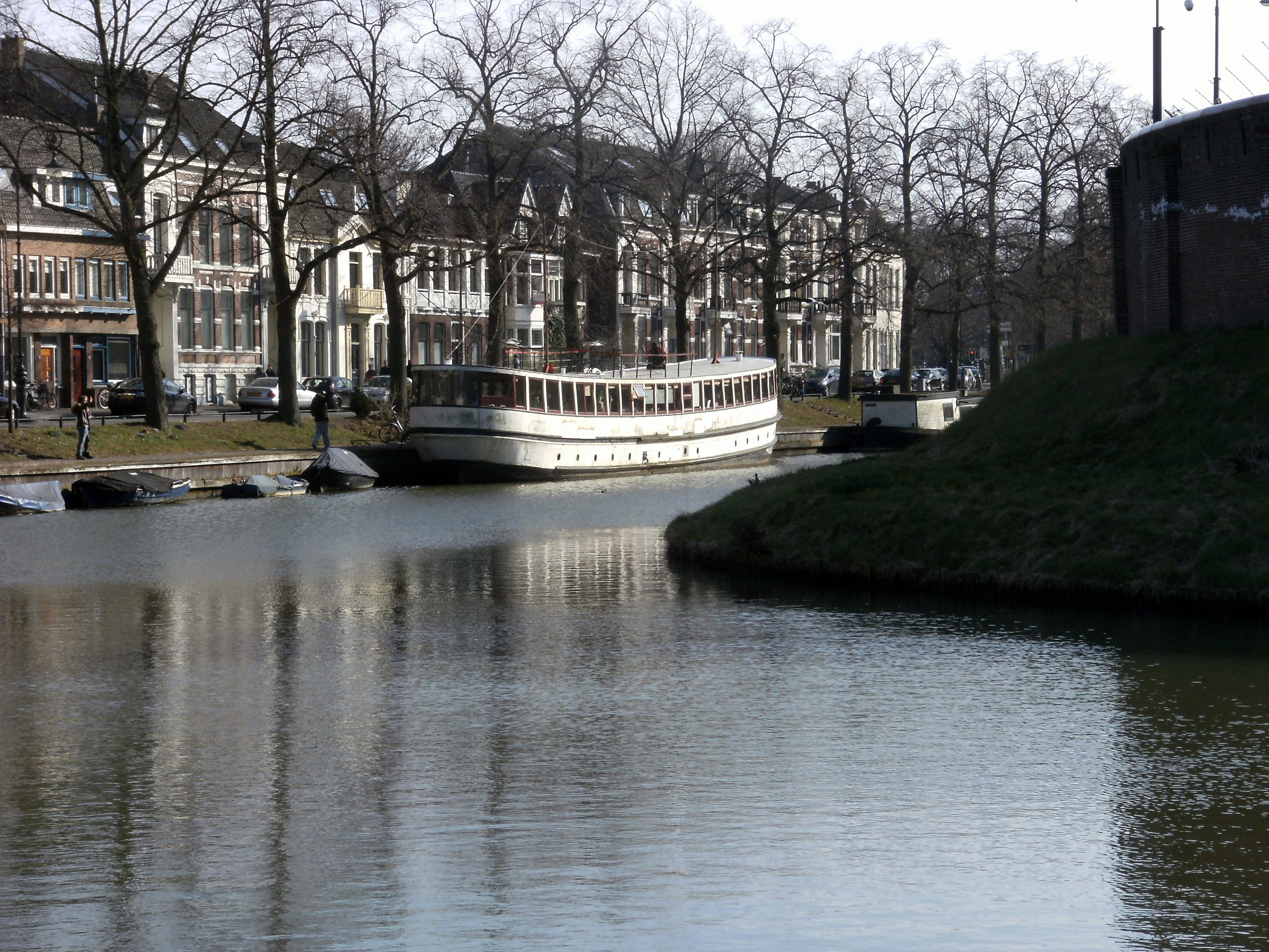 Coffeeshop "De Boot", 2013-04-01, Stadsbuitengracht in Utrecht.